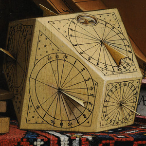 Detail from The Ambassadors